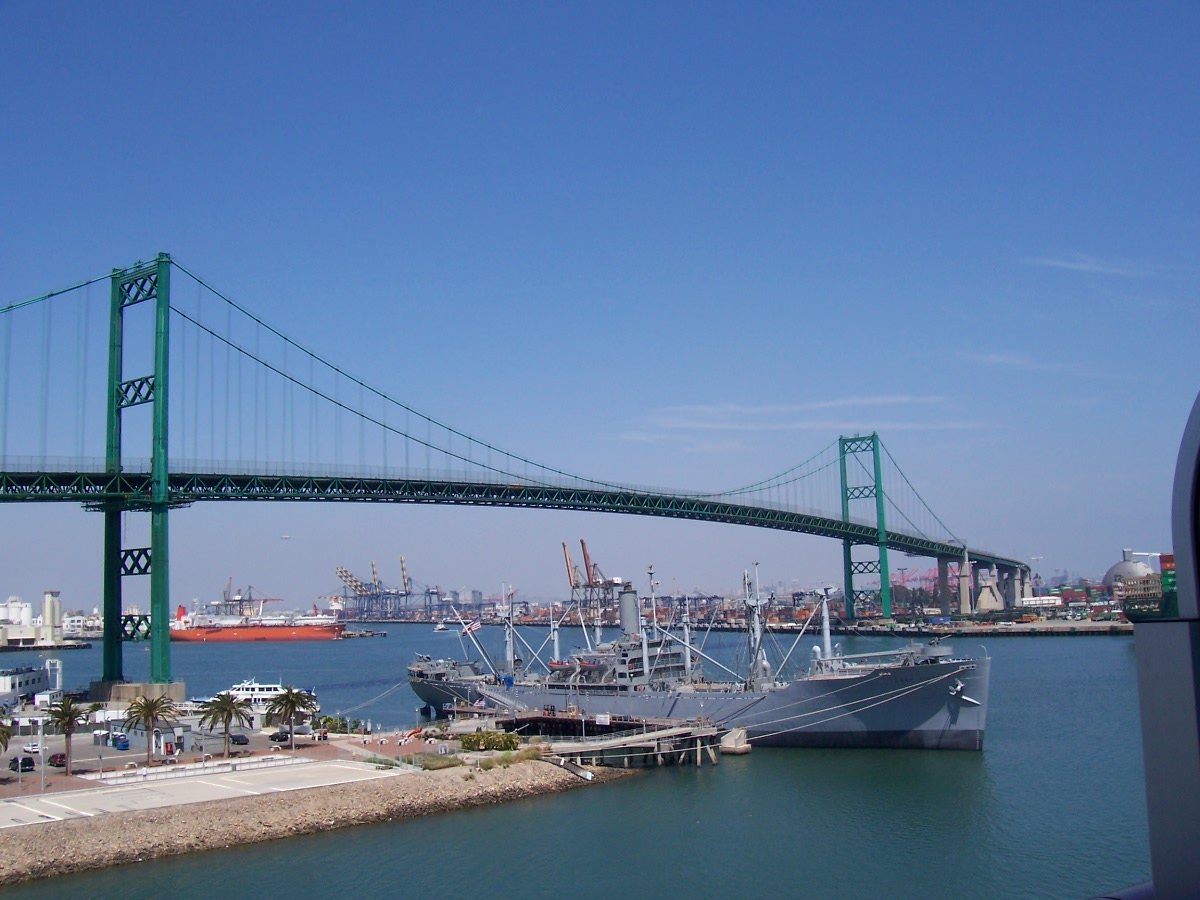 Vincent Thomas Bridge from San Pedro, Los Angeles, California to Terminal Island, California. S.S. Lane Victory is visible in the foreground.